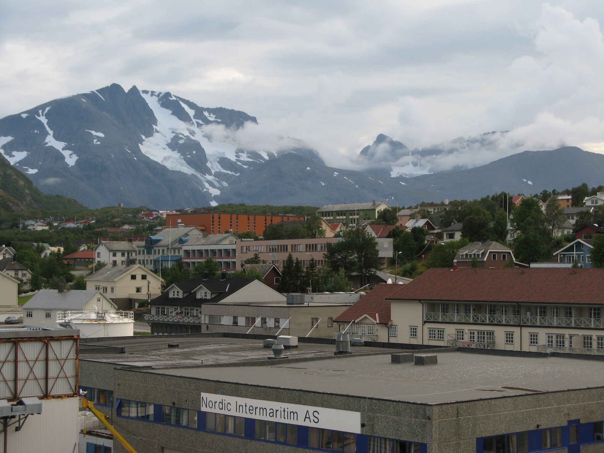 View over Skjervøy